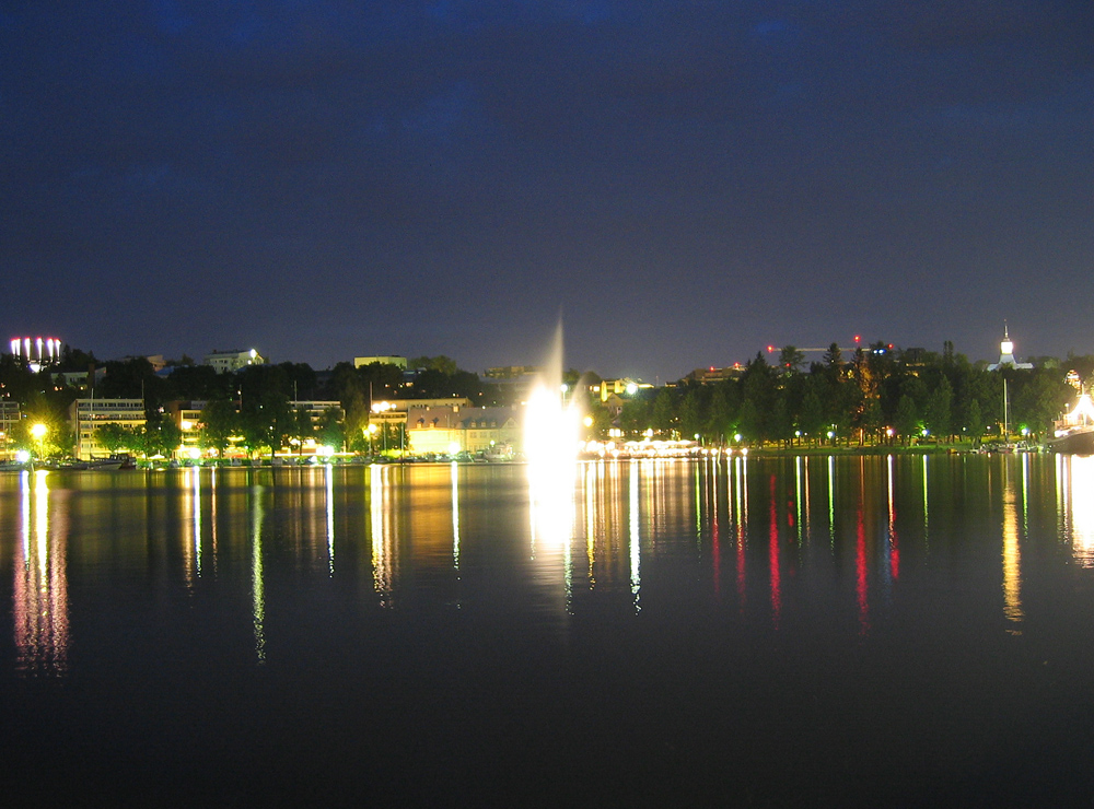 Port of Lappeenranta, Finland at night.